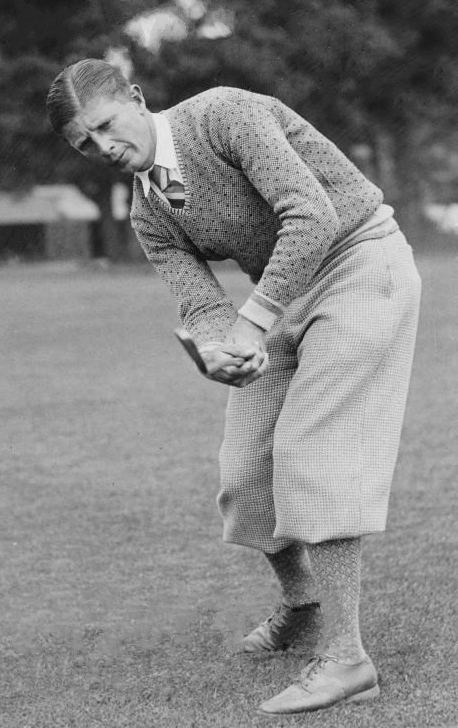 1929 Photo of famous Stanford University Coach (and former Olympic Gold Medalist in 1920) posed on the Golf Course. Photo was taken by the noted Del Monte California Photographer J.P. Graham.